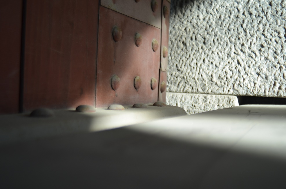 Hyehwamun Gate, also known as Northeast Gate or Dongsomun, Seoul, South Korea. Photographed May 5, 2012. Photo taken from inside gate, of wooden beam, steel rivets, and stone.